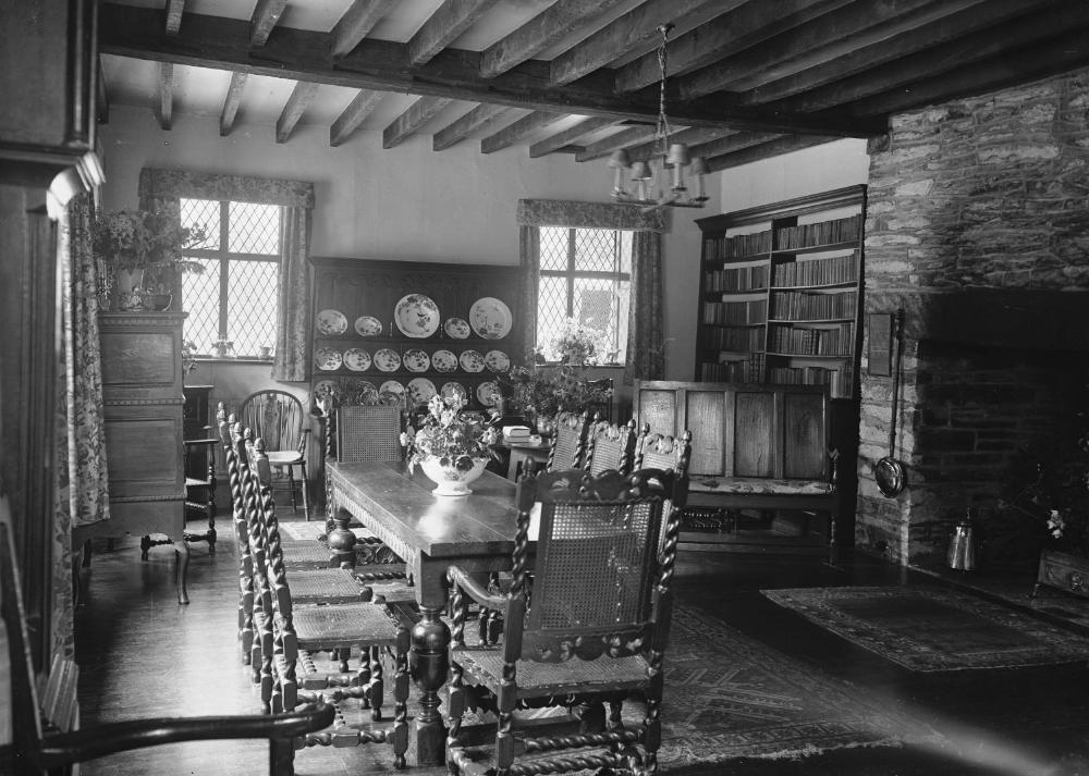 Abstract: Dining room at Dderw, Rhayader